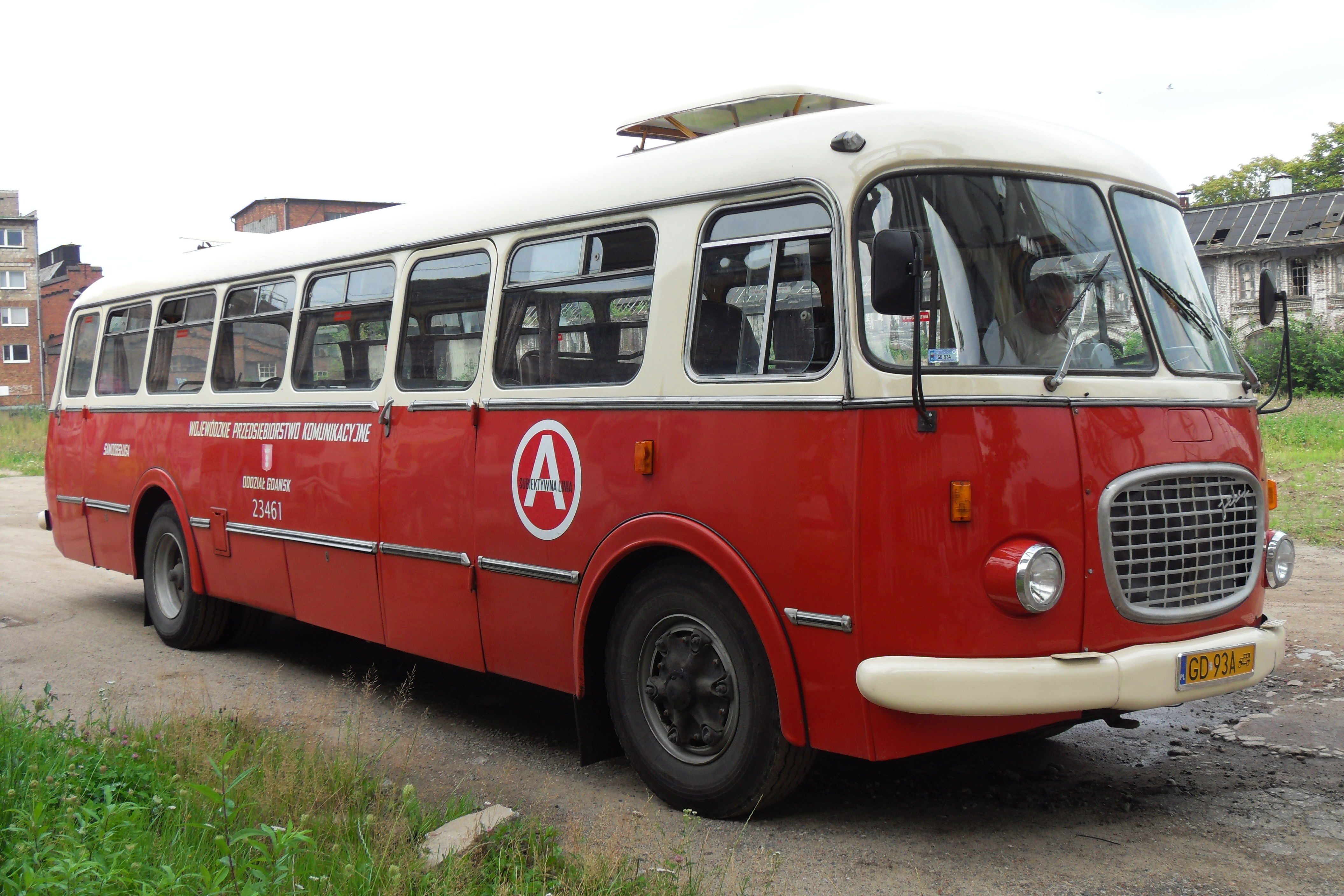 Jelcz 043 bus (#23461) in Gdańsk, Poland. Built 1984, ZKM Gdańsk operator.